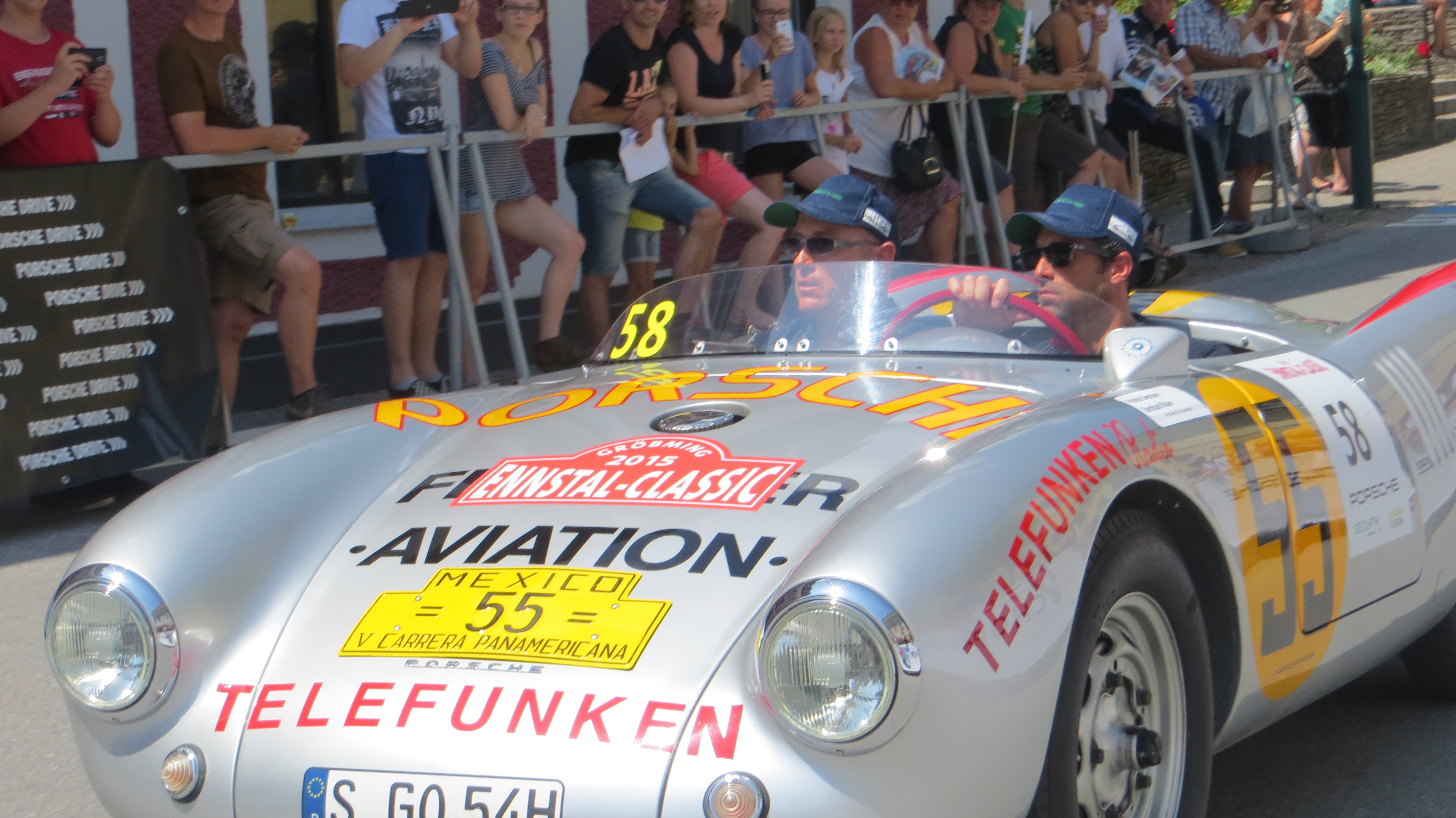 American actor and race car driver